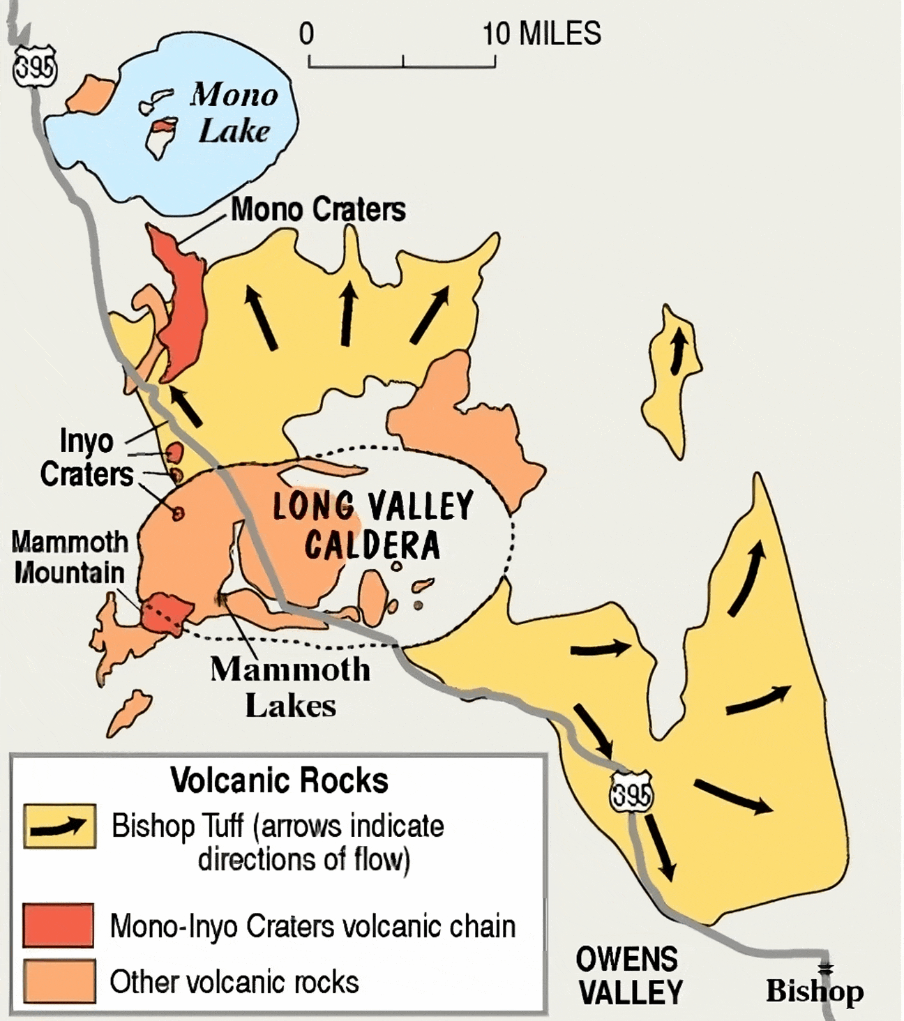 Much of the Long Valley area of eastern California is covered by rocks formed during volcanic eruptions in the past 2 million years. A cataclysmic eruption 760,000 years ago formed Long Valley Caldera and ejected flows of hot glowing ash (pyroclastic flows), which cooled to form the Bishop Tuff. That ancient eruption was more than 2,000 times larger than the 1980 eruption of Mt. St. Helens, Washington